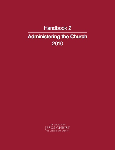 Cover of the 2010 LDS 'Handbook 2: Administering the Church'